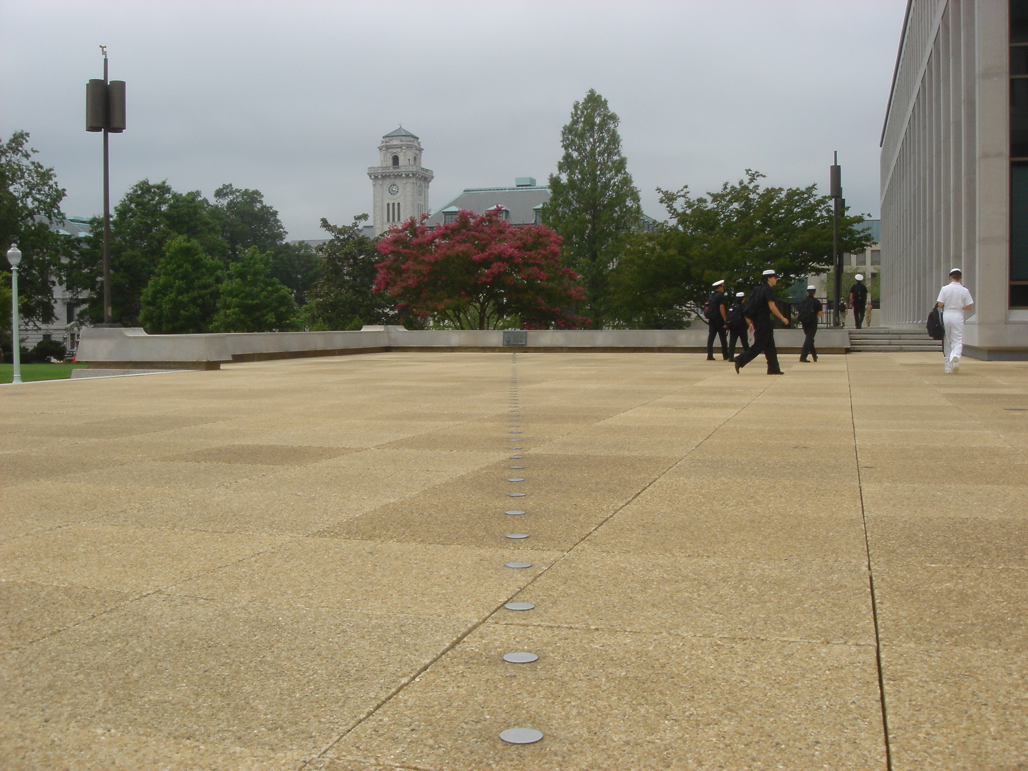 Site of Albert_Abraham_Michelson's experiments in testing the speed of light. At United States Naval Academy.